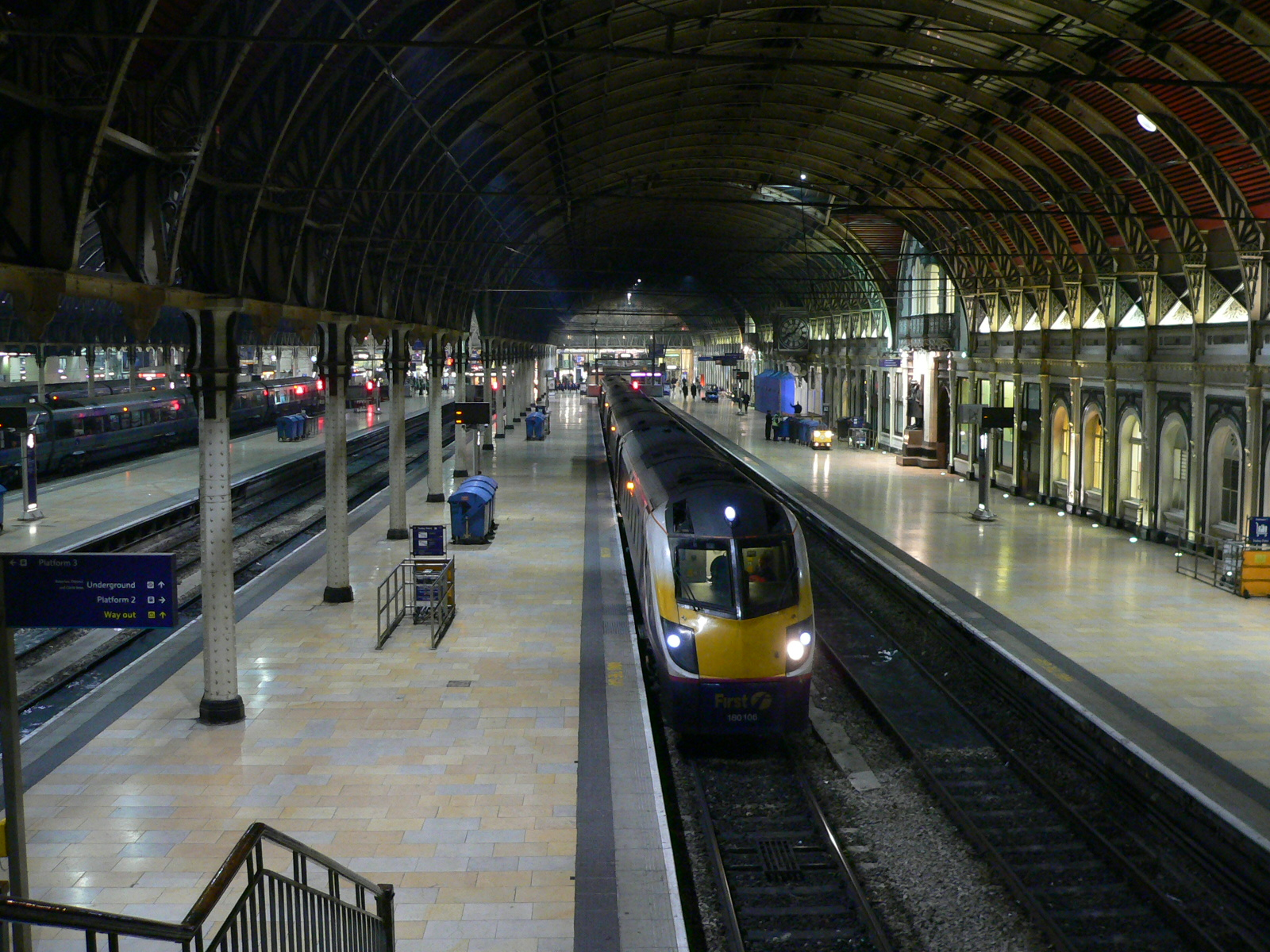 First Great Western Class 180 DMU 180106 at platform 2 of Paddington station in London, viewed from the bridge to the adjacent London Underground Hammersmith and City Line station.